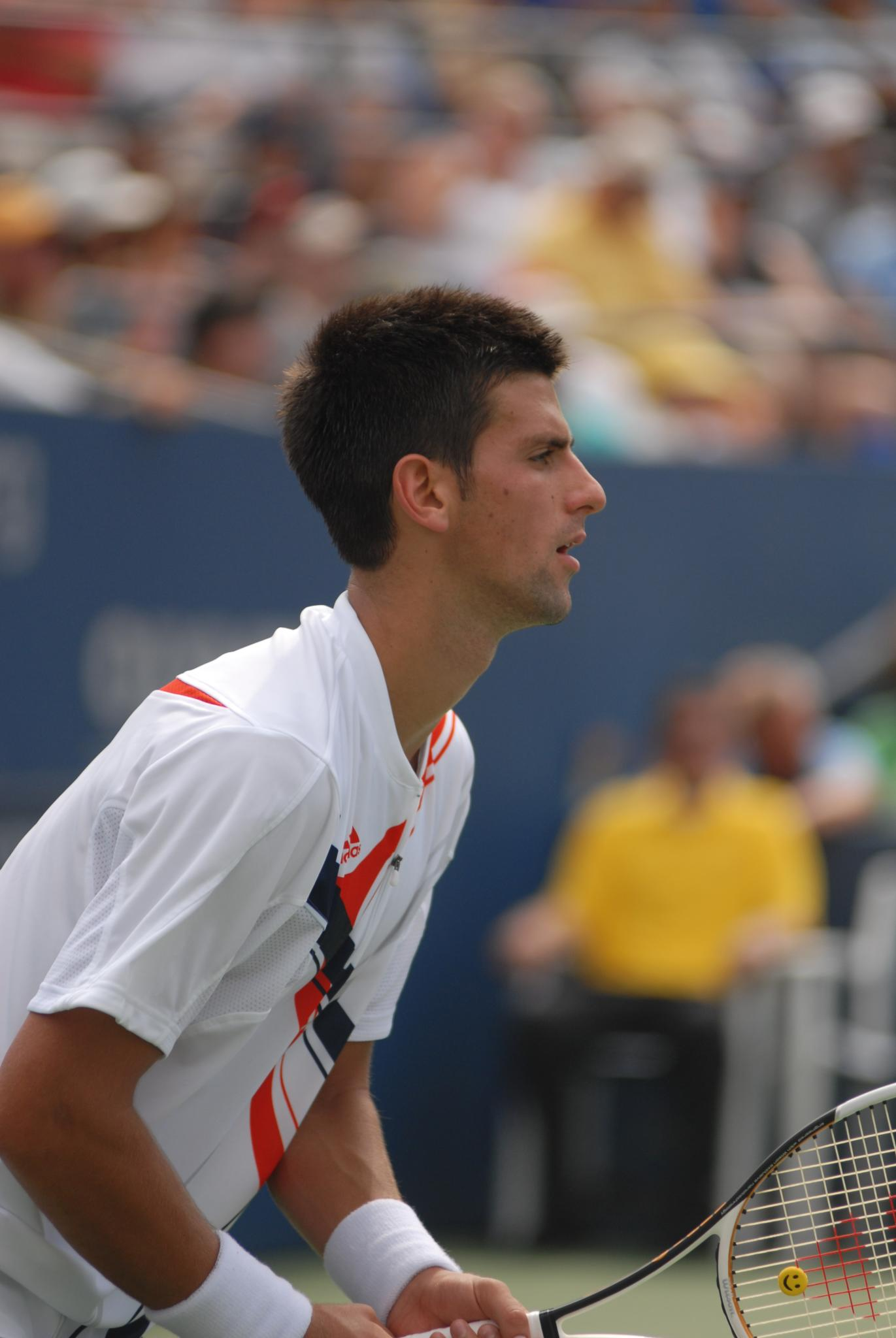 Novak Đoković at 2007 US Open